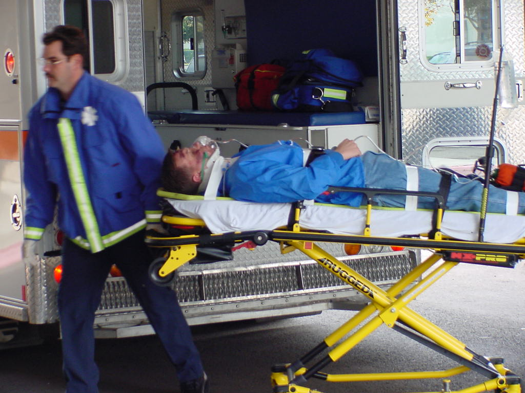 A stretcher being used in mid-2001.